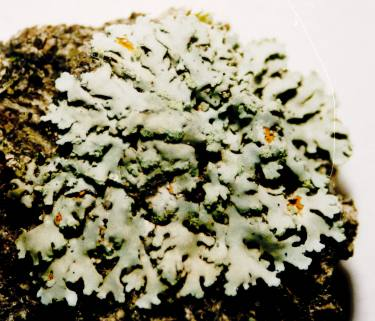 Phaeophyscia rubropulchra